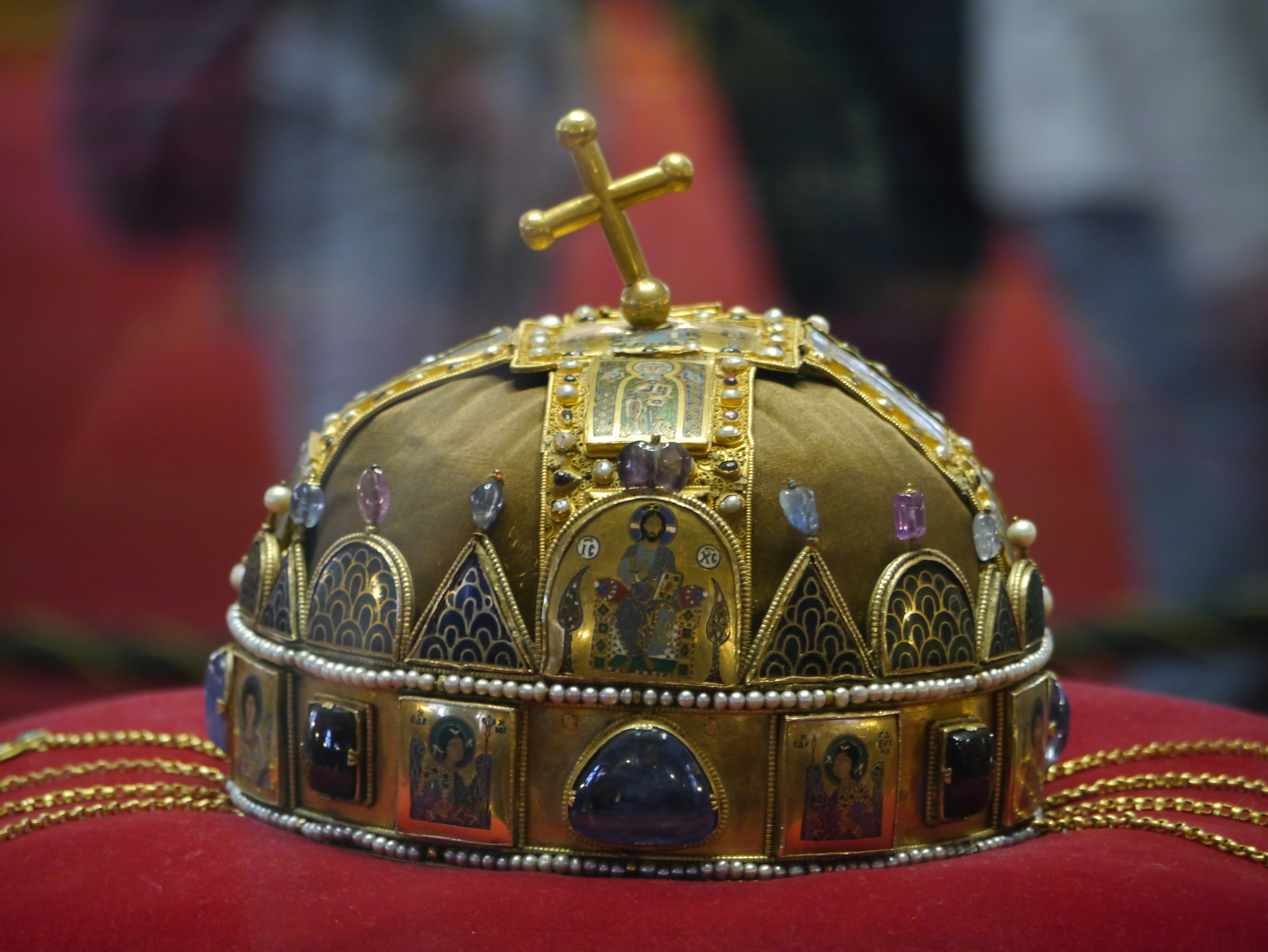 Crown of the king of Hungary at the Dome hall of the Parliament building, Budapest, Northern Hungary